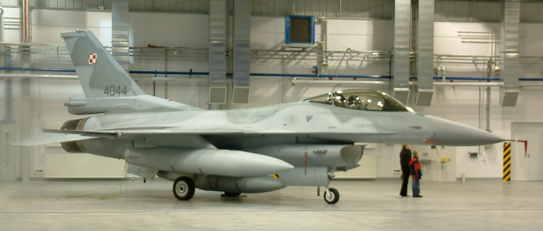 F-16C block 52+ #4044 of Polish Air Force, 31st Air Base Poznań-Krzesiny